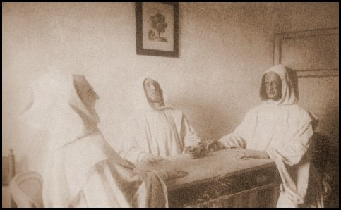 Bagheria Sicily